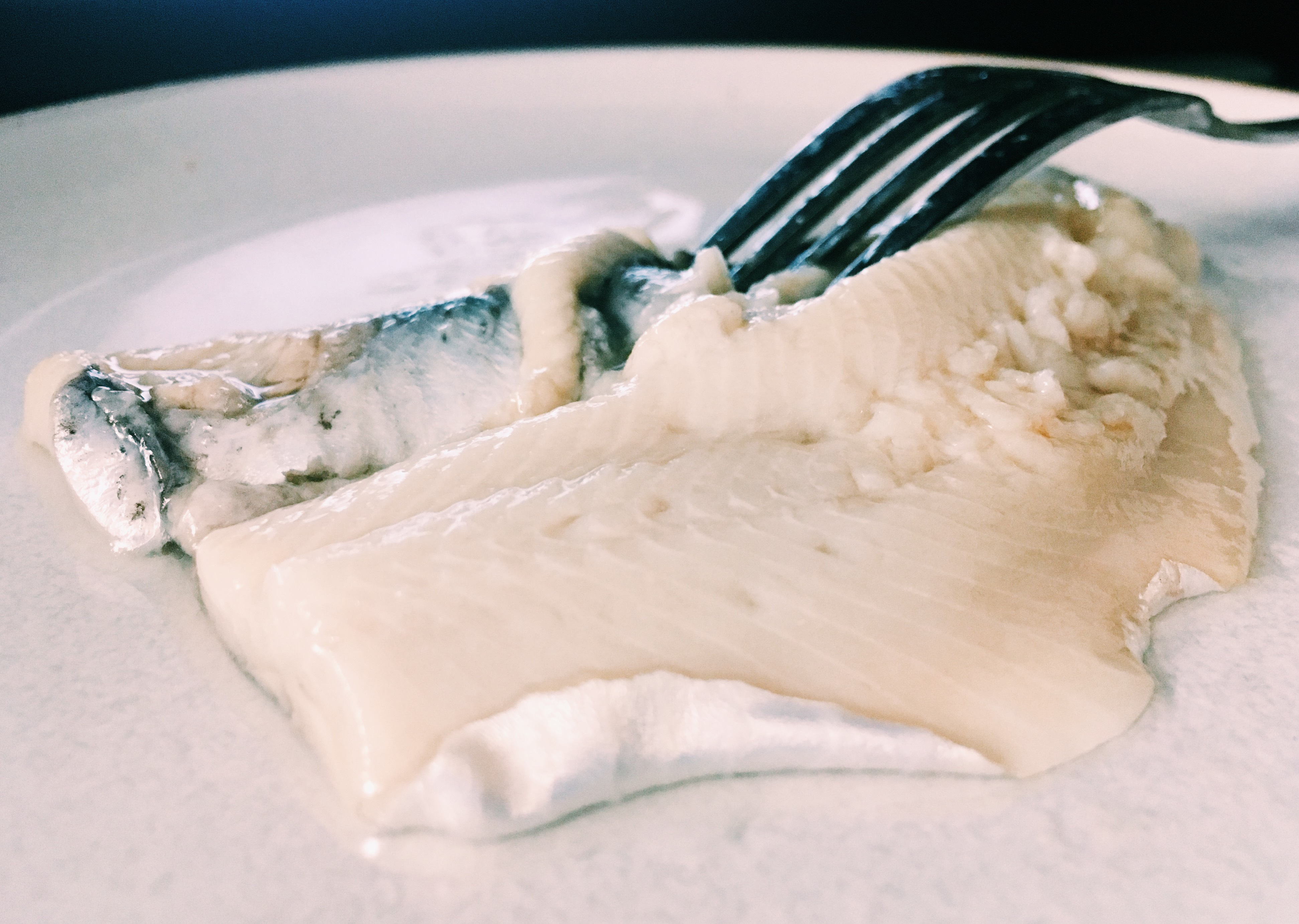 Herring from a jar of vinegar. Polish herring.